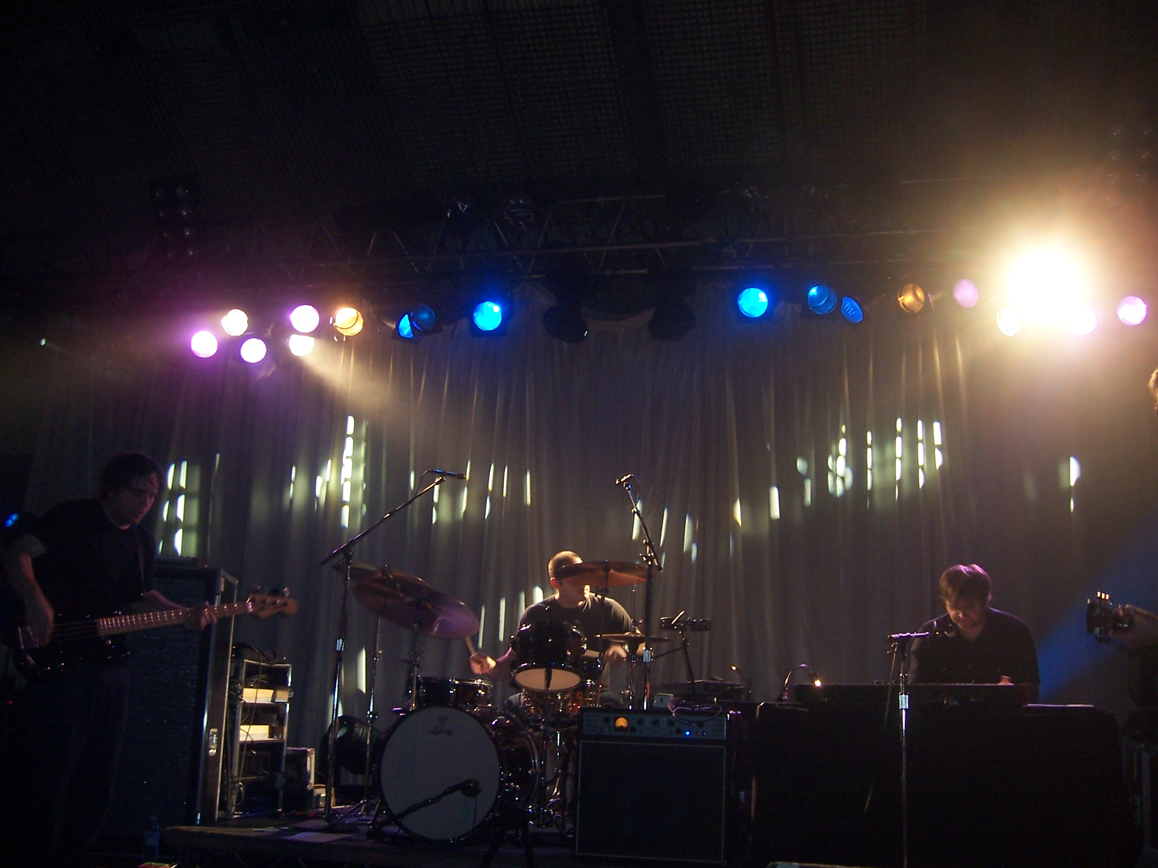 Death Cab For Cutie Portsmouth Pyramids